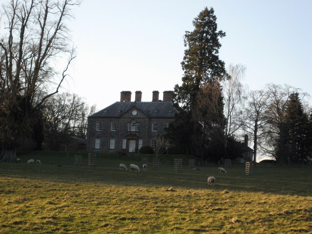 Torwoodlee House